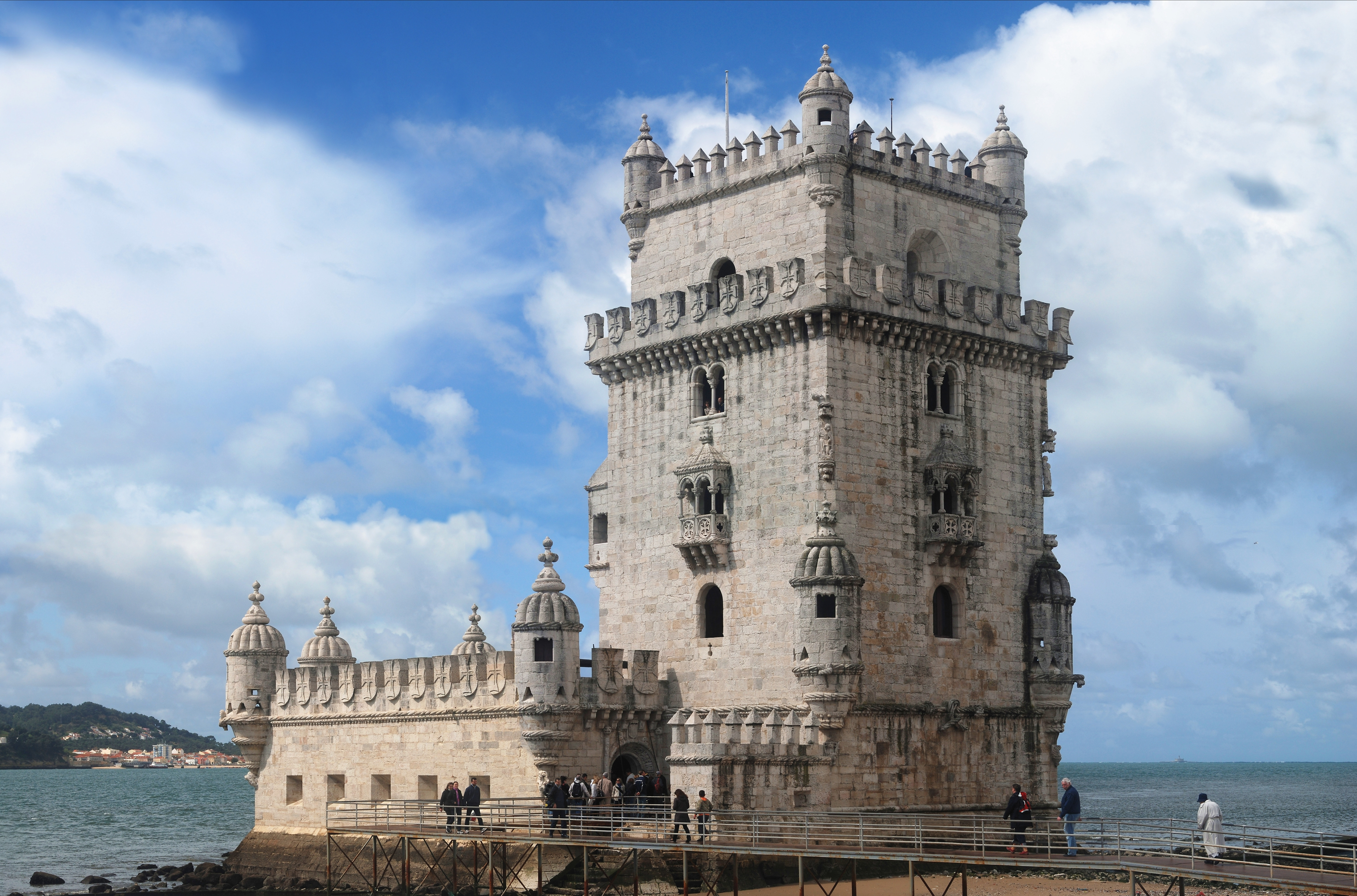 The Tower of Belém, Lisbon, Portugal. View from East.